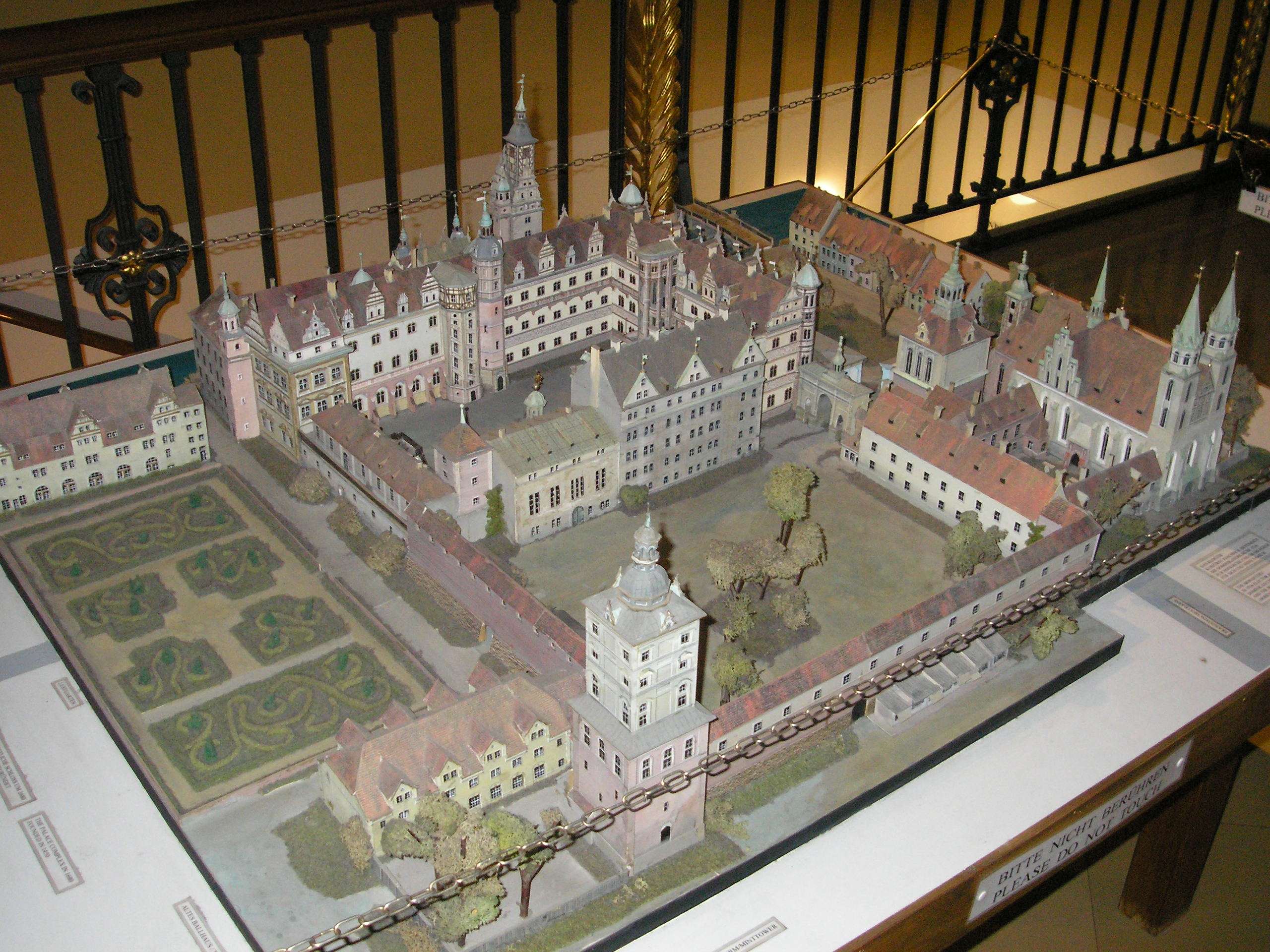 Description: Miniature model of the Stadtschloss Berlin, showing extent during the Renaissance period. Model located in the Berliner Dom. Source: Self-made, I release it into the public domain. Gryffindor 14:35, 11 April 2006 (UTC)